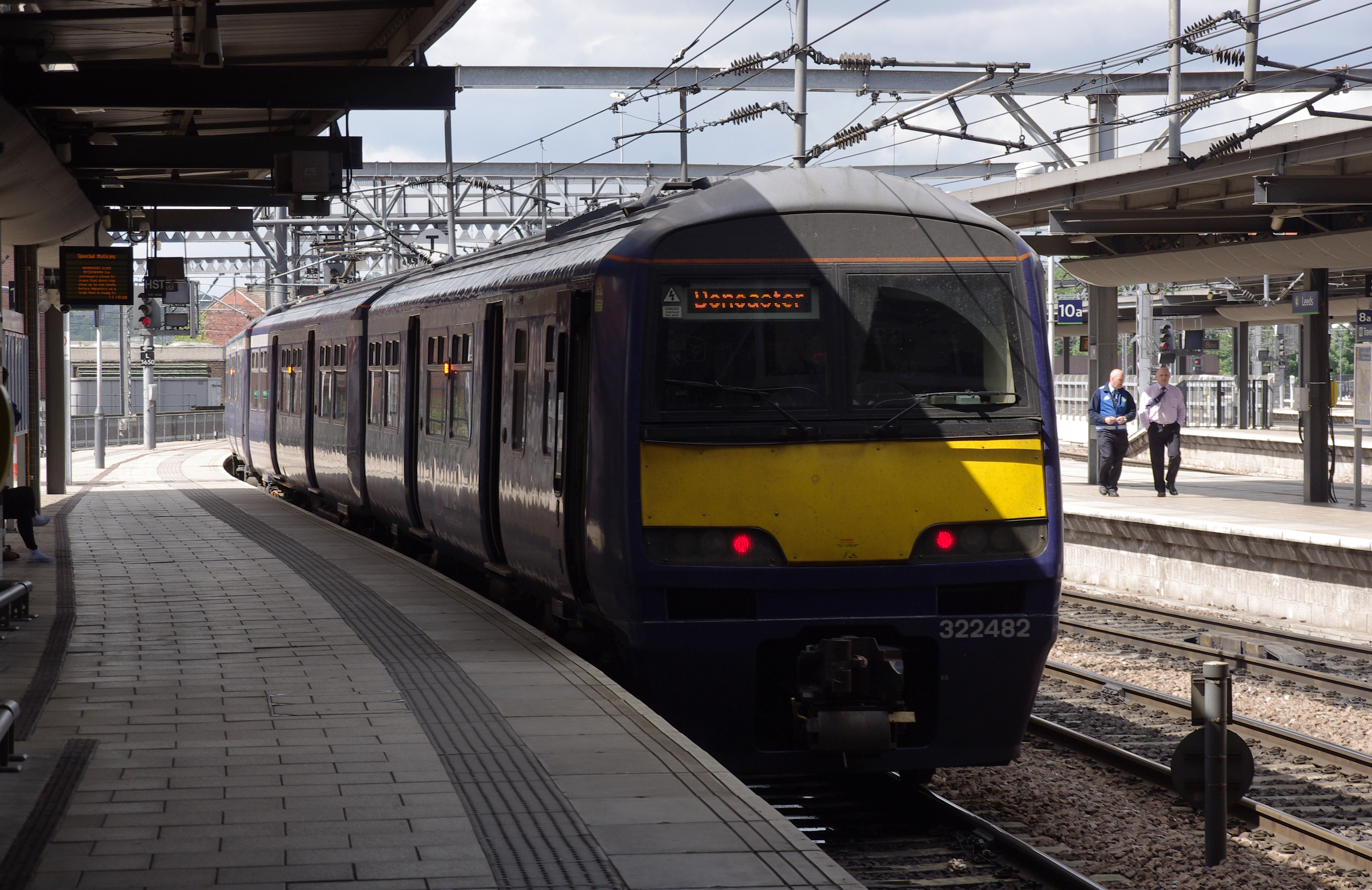 Northern Rail class 322 EMU 322482 departs Leeds with a service to Doncaster.